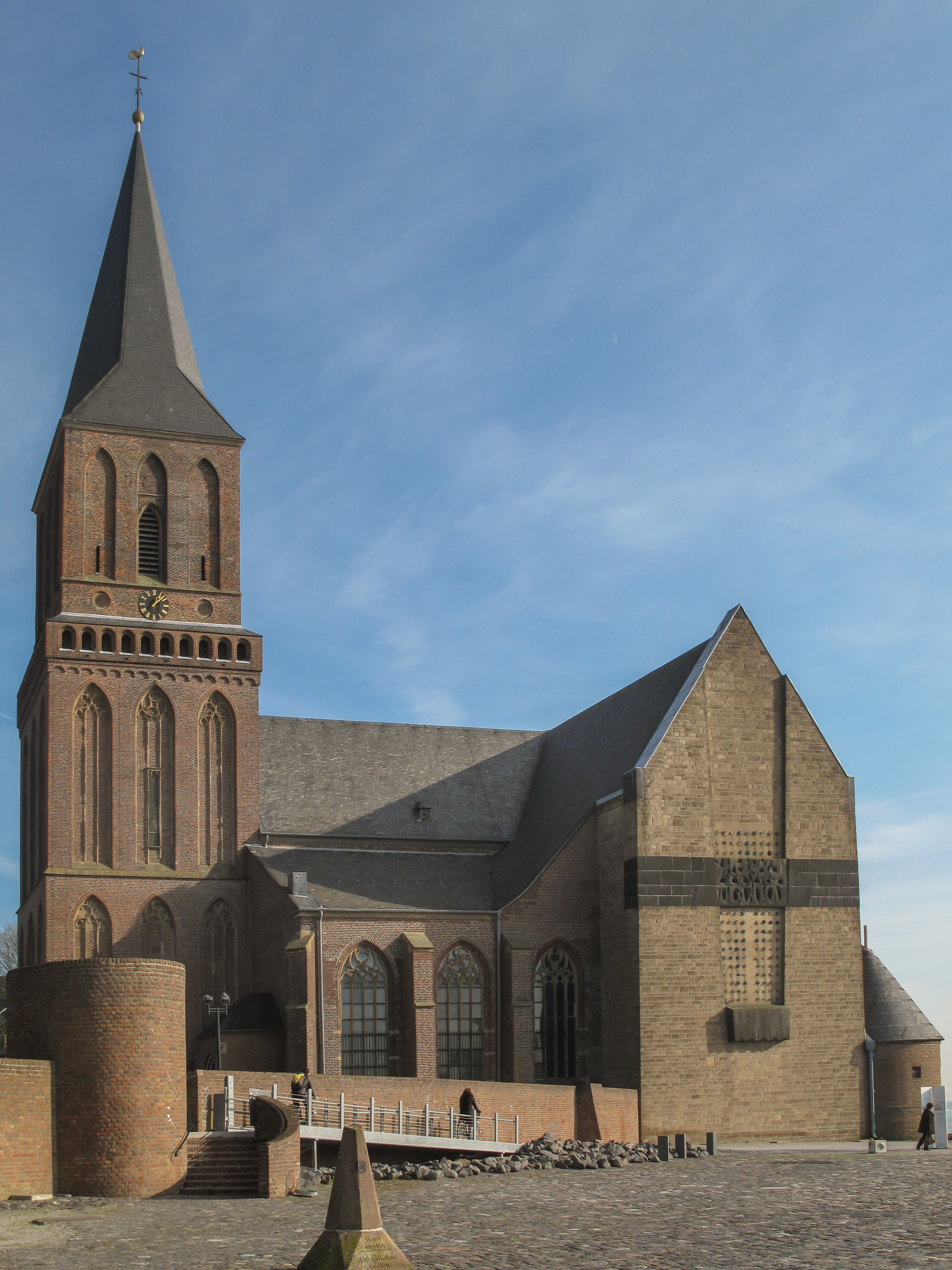 Emmerich, church: Sankt Martinikirche